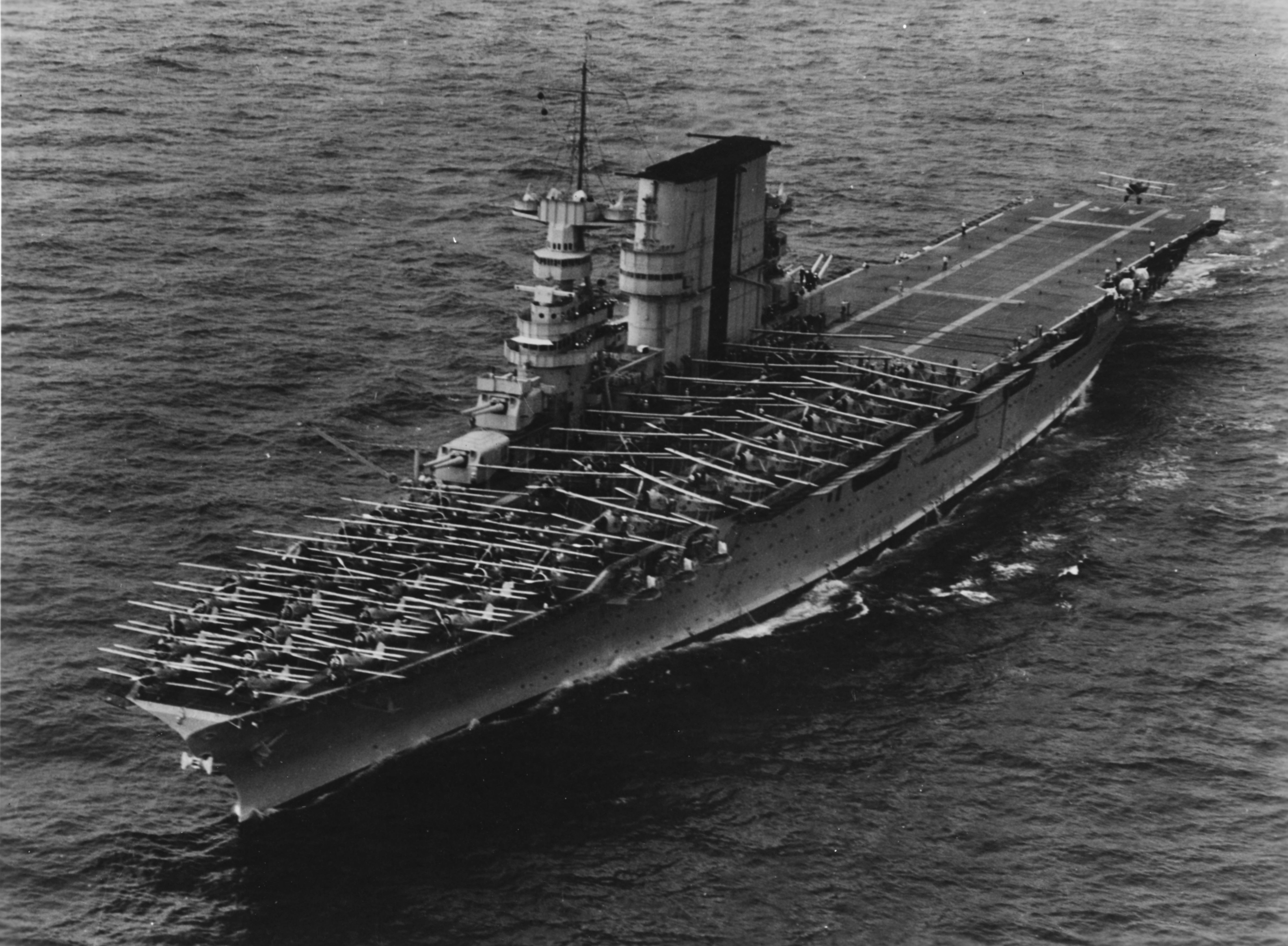 The U.S. Navy aircraft carrier USS Saratoga (CV-3) landing planes on 6 June 1935.